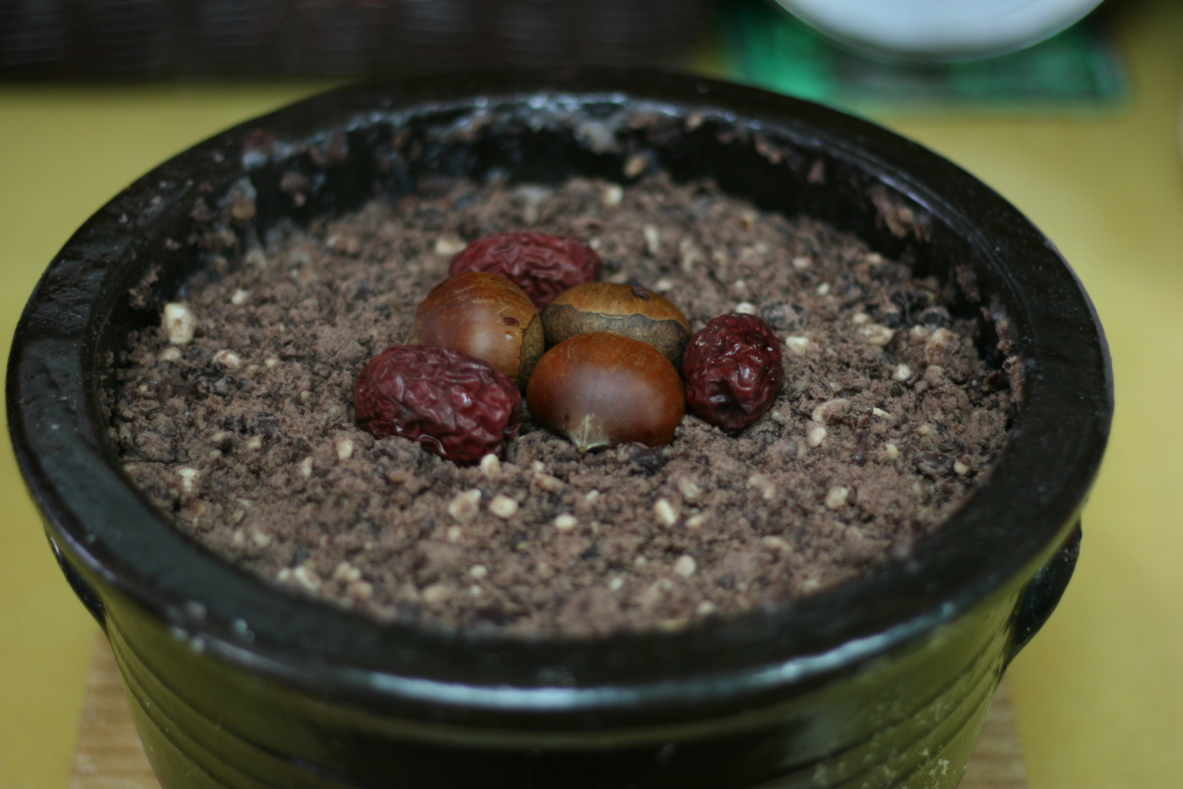 Korean rice cake-Sirutteok